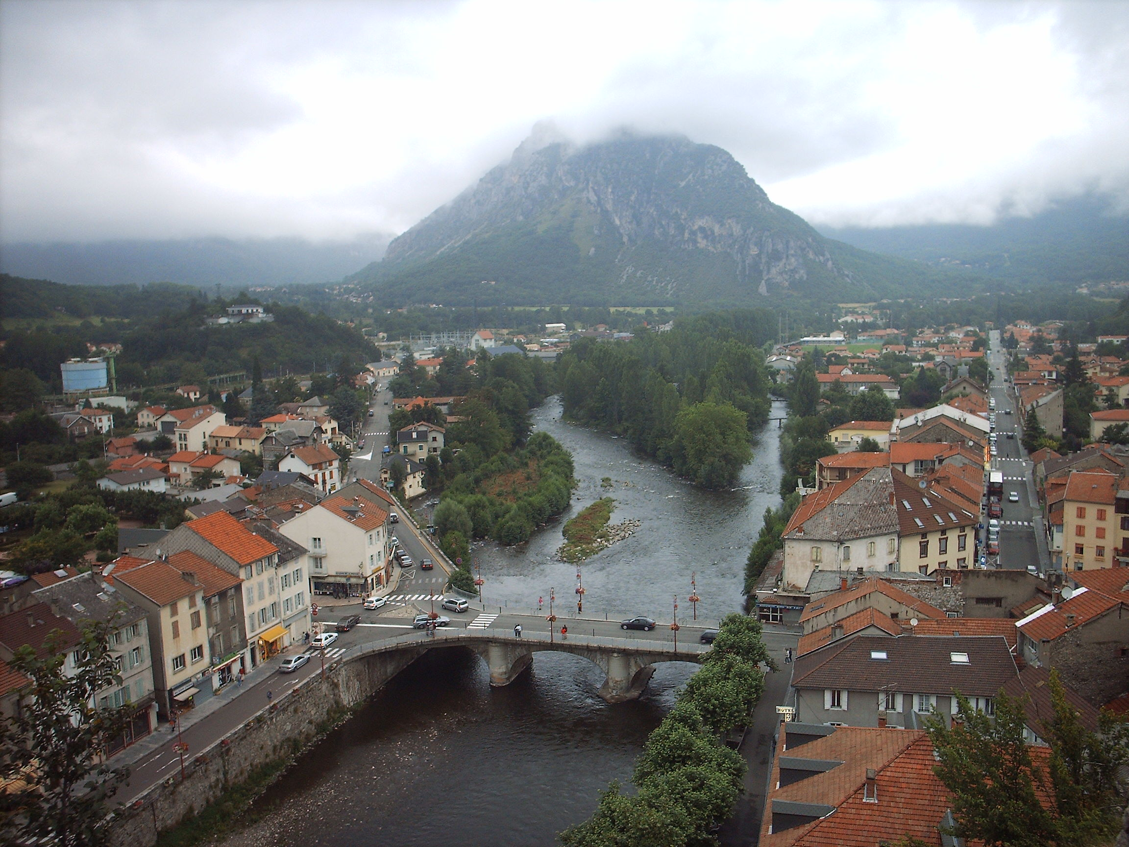 Tarascon-sur-Ariège, a commune in the Ariège department in southwestern France.